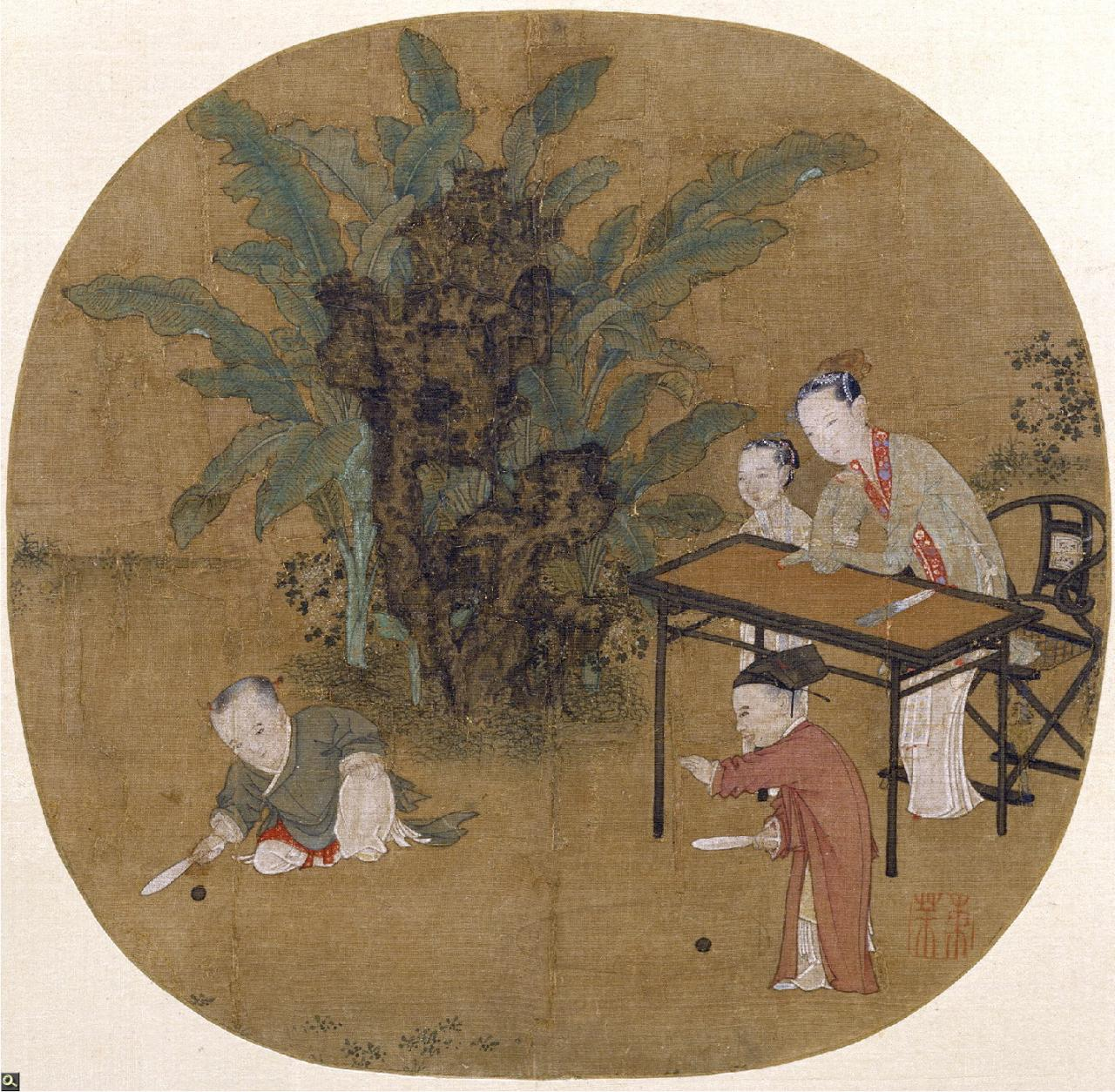 "Hitting the Ball in the Shadow of the Banana Leaves" (蕉阴击球图页), a painting by Chinese artist Su Hanchen (苏汉臣, active 1130-1160s AD) of the Song Dynasty period.